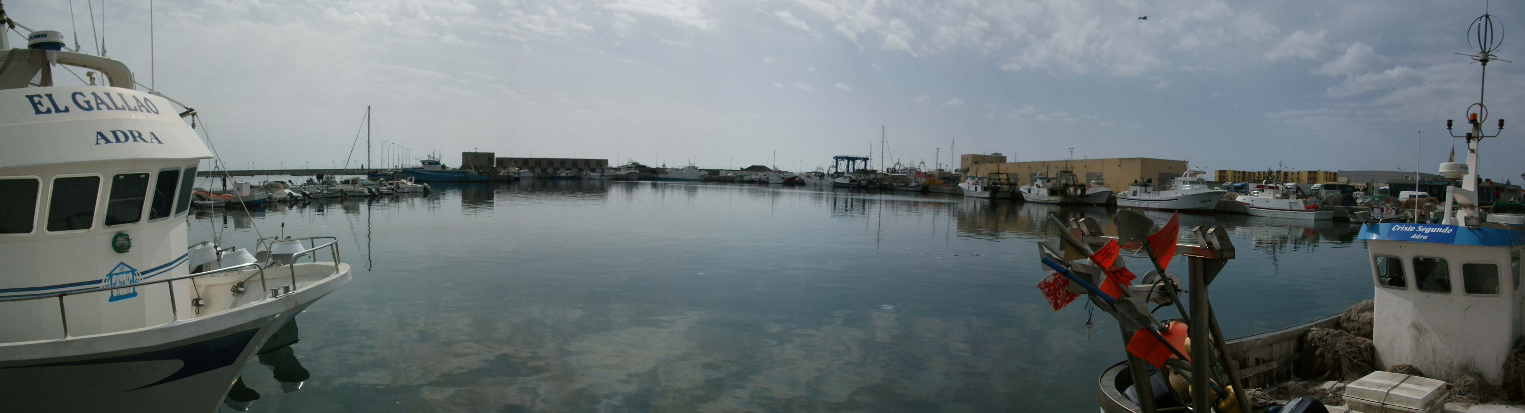 Puerto de Adra